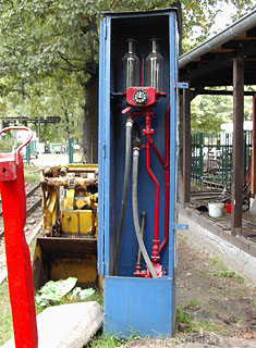 gas pump, Aral, 1910